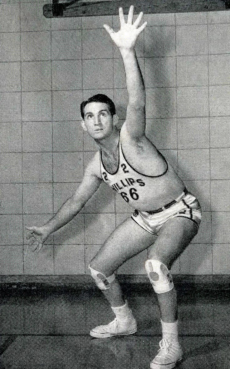 American basketball player Gerald Tucker for the Phillips 66ers c. 1948